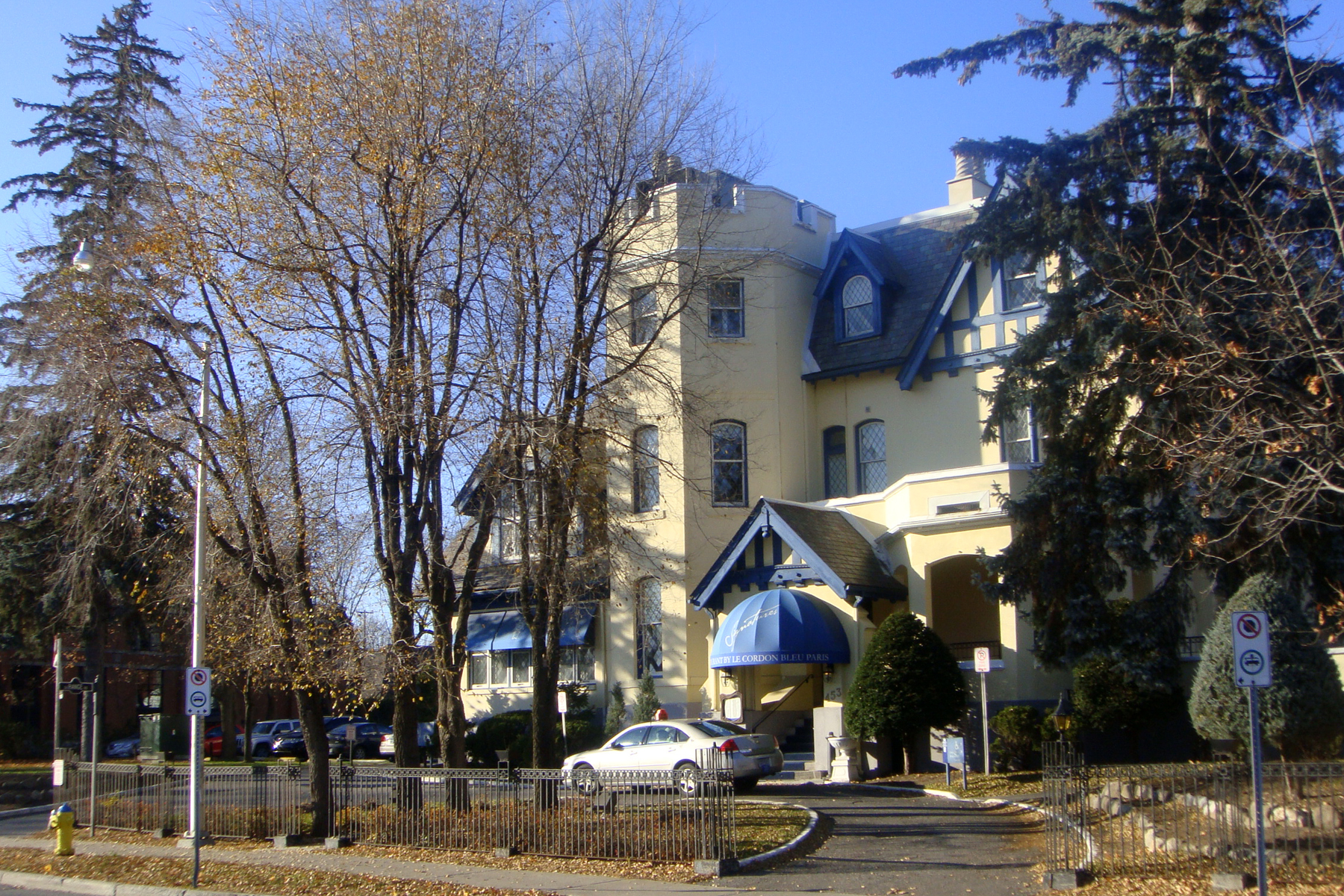 Le Cordon Bleu cooking school and restaurant along Laurier Avenue East, in Ottawa, Canada